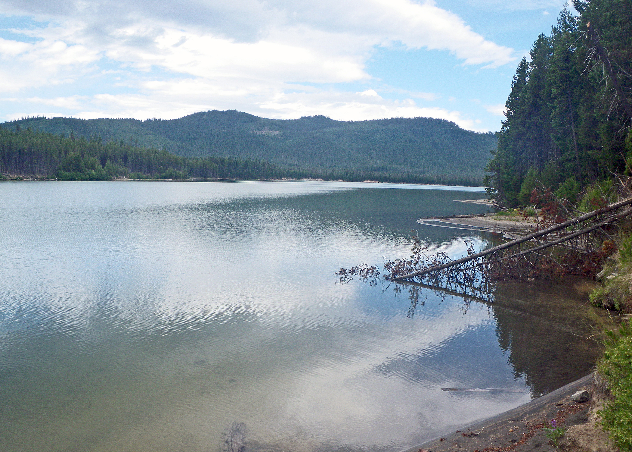 Lemolo Lake, a reservoir in the Umpqua National Forest in Douglas County, Oregon, USA